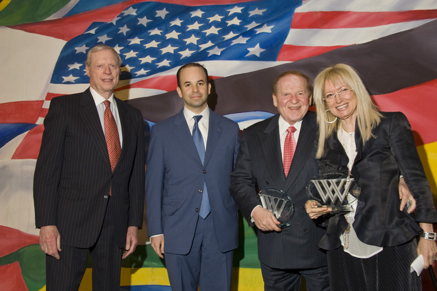 American billionaire Sheldon Adelson and his family.